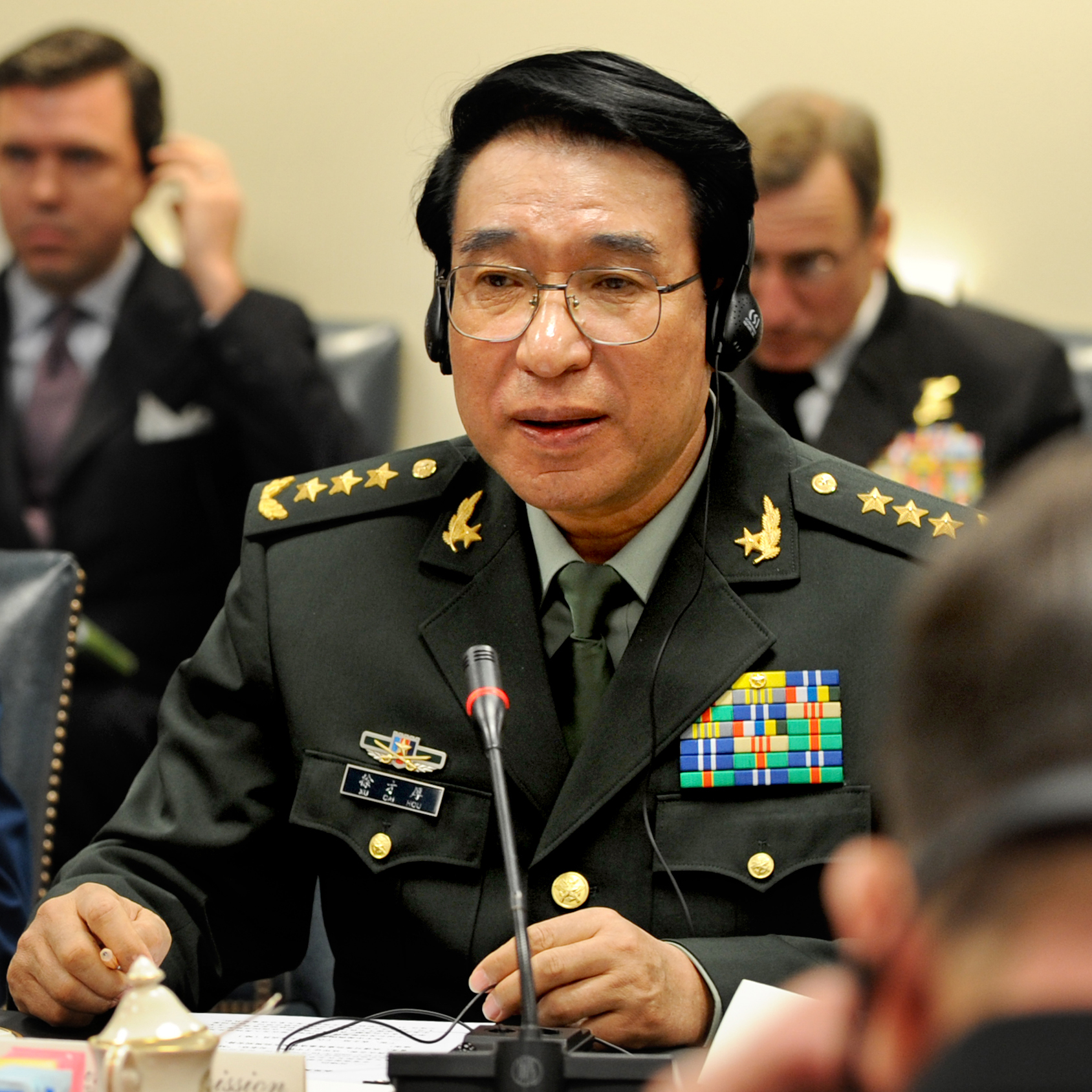 Chinese army Gen. Xu Caihou, right, vice chairman of the Central Military Commission, Chinese People's Liberation Army, speaks during the start of security discussions held with Secretary of Defense Robert M. Gates at the Pentagon in Arlnigton, Va., Oct. 27, 2009.